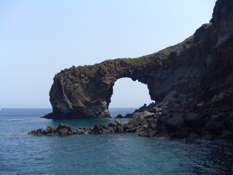 Natural arc in Salina island - Italy